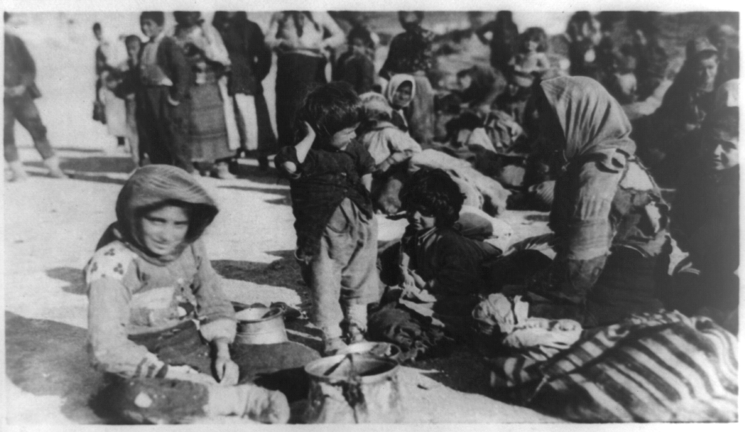 Near East Relief, a common sight among the Armenian refugees in Syria